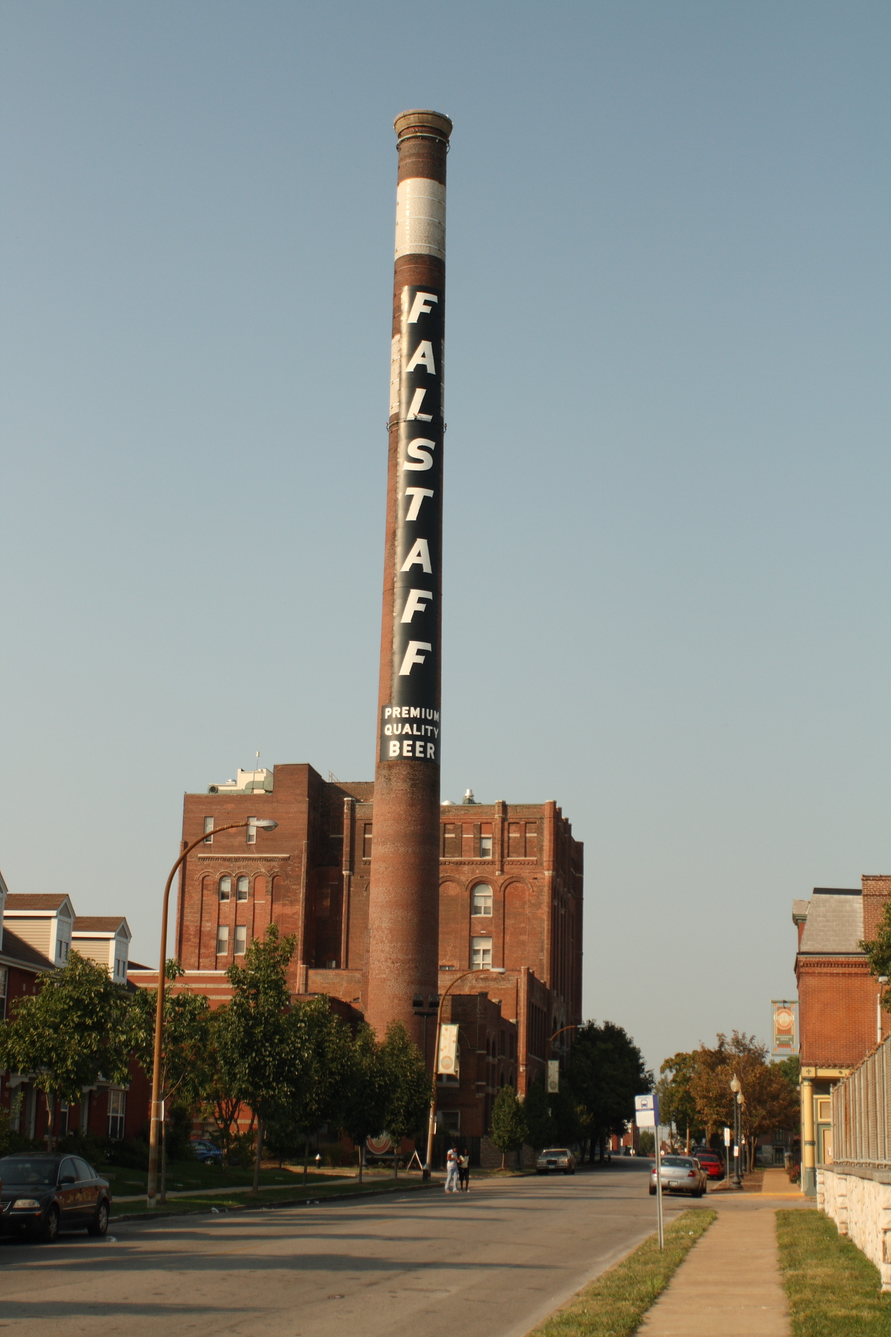 Falstaff Brewery Building, St. Louis, Missouri